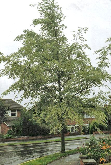 Tri-variegated elm in Kestrel Road, Bedford